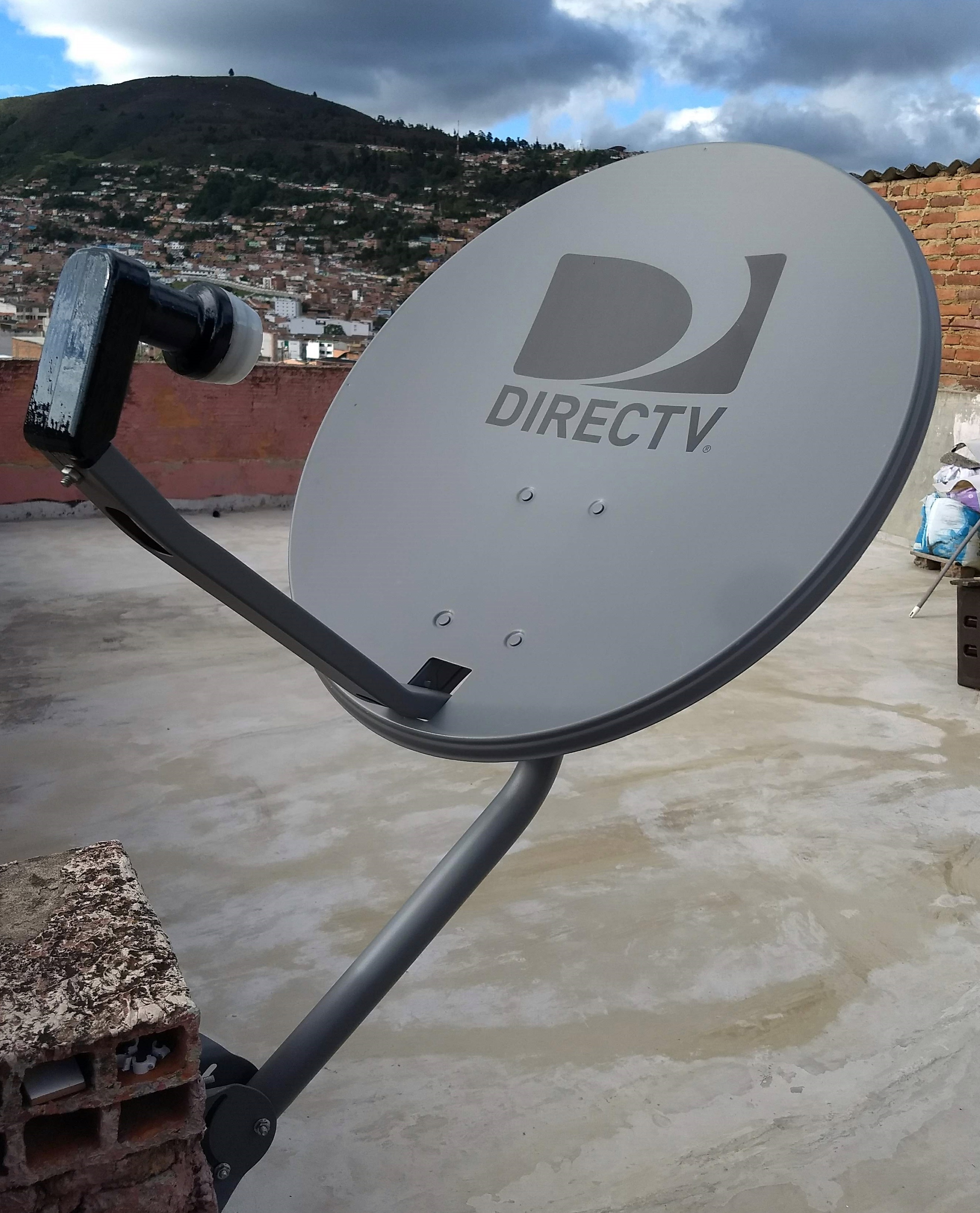 DirecTV Satellite Antenna with WNC SF4 LNB Black used in DirecTV and SKY Latin America